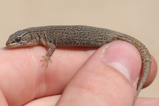 Xantusia sp. from the US (probably southwest).